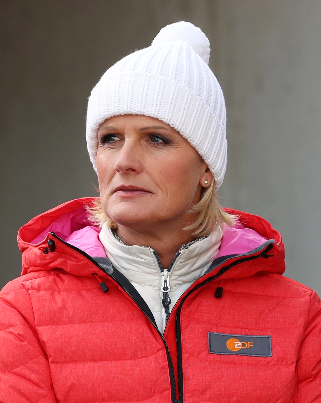 Women's World Cup race at the 2018/19 Luge World Cup in Innsbruck-Igls